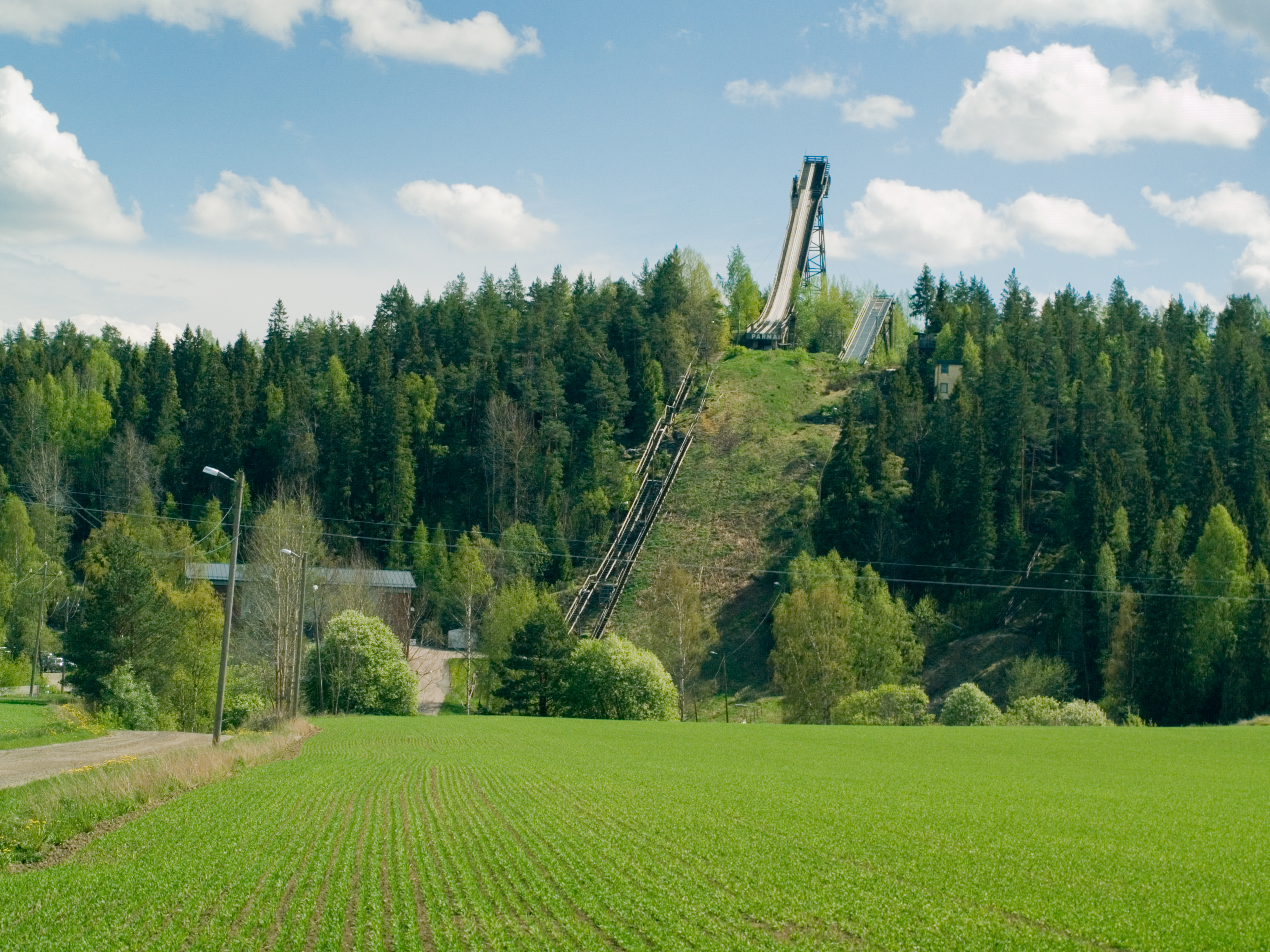 Parmaharju sports centre with ski jump facilities in Lieto, Finland. May 2014.